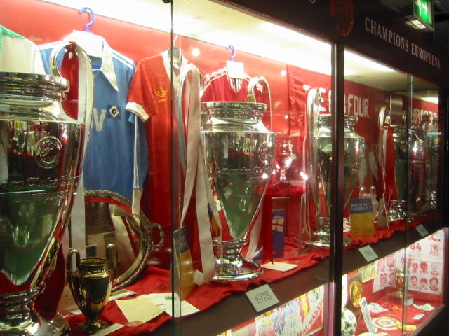 The 4 European Cups won in 1977, 1978, 1981, 1984 on display in the club's museum